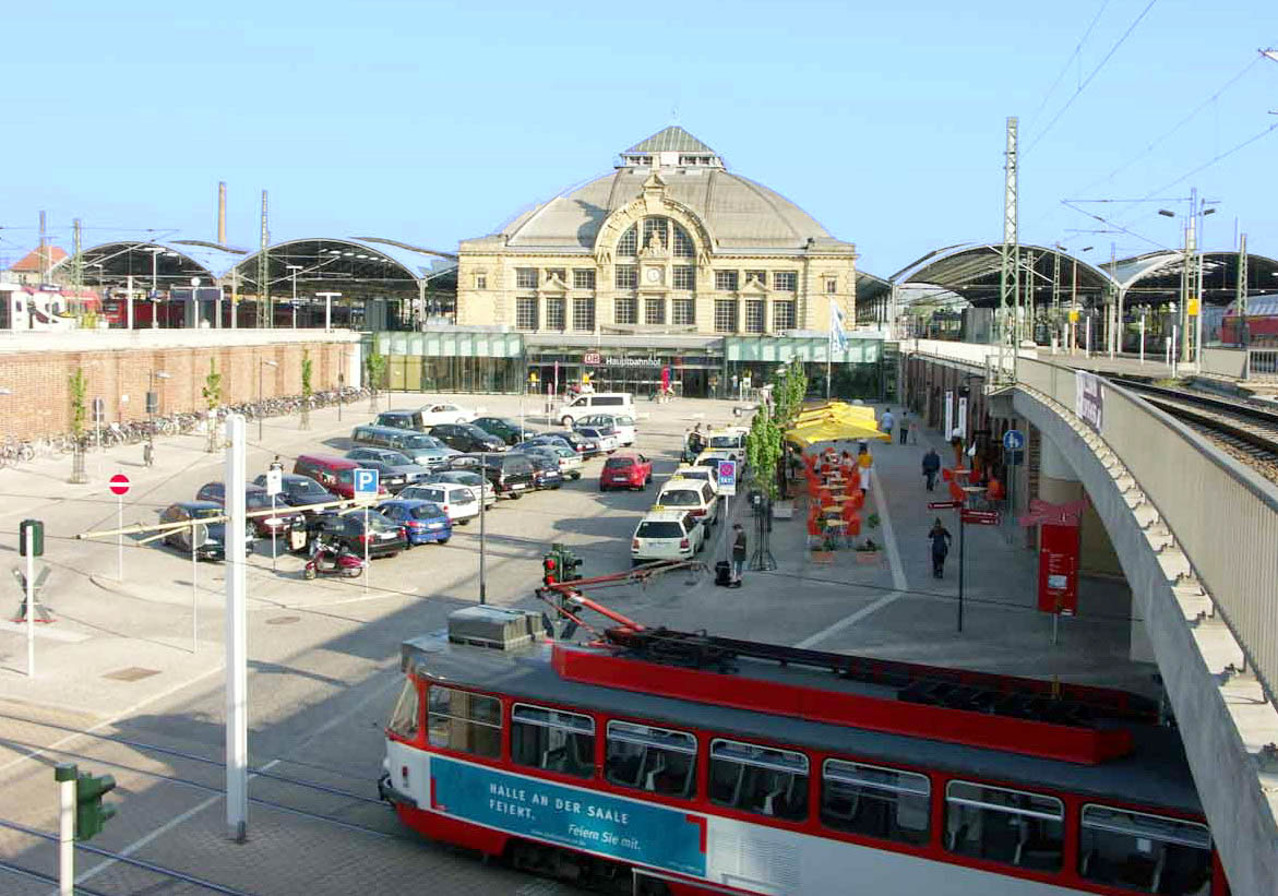 Halle (Saale) Hauptbahnhof, a through station and island station (one of the most important in Germany) with 12 tracks and links to the tramway and S-Bahn, 6 tracks at three platforms in each direction, east and west. Built 1890 by the Prussian railways, major refurbishment to 2005